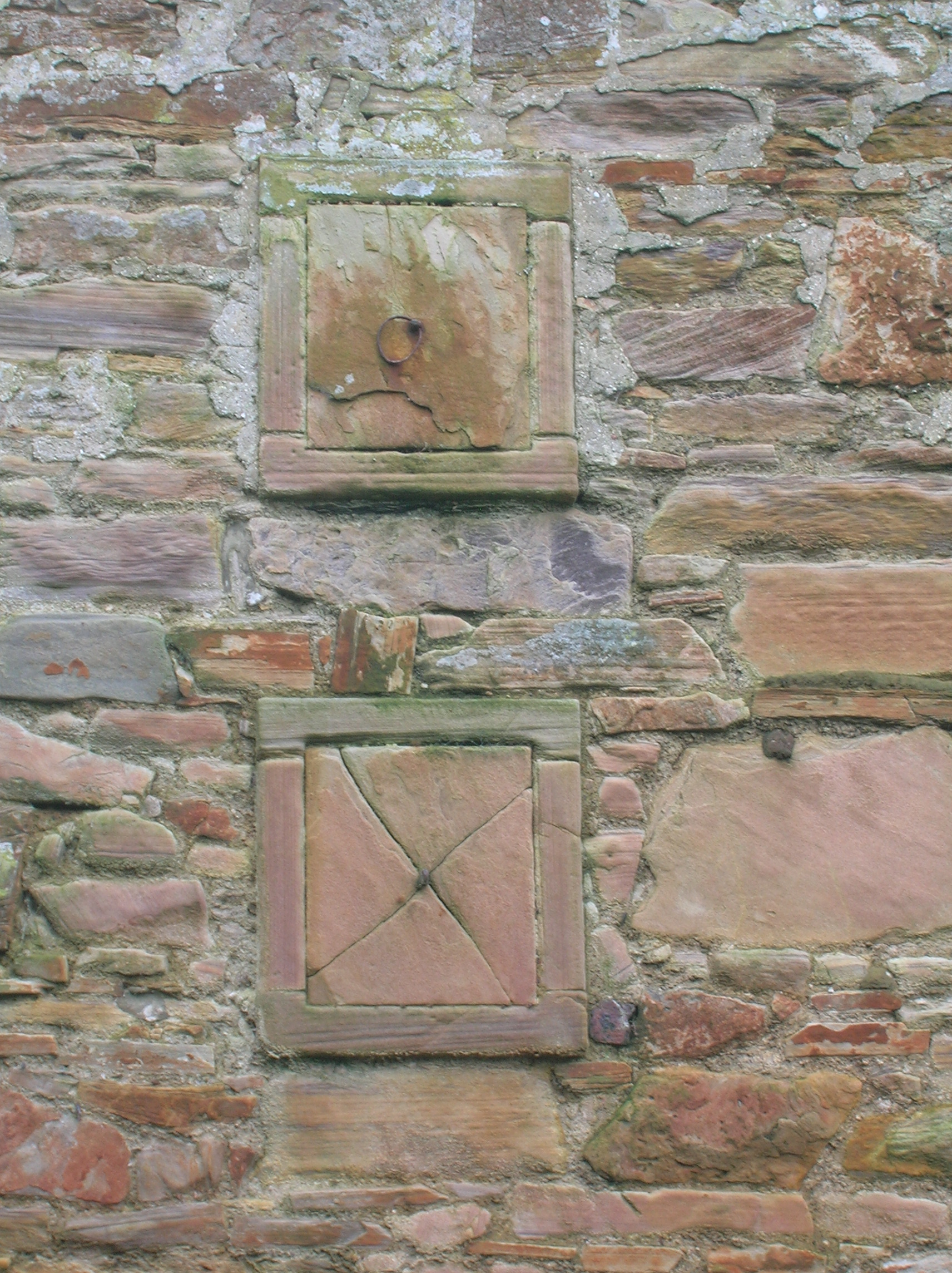 Walled garden 'hypocaust' control system. Hollow wall. Eglinton, Irvine, Ayrshire, Scotland.